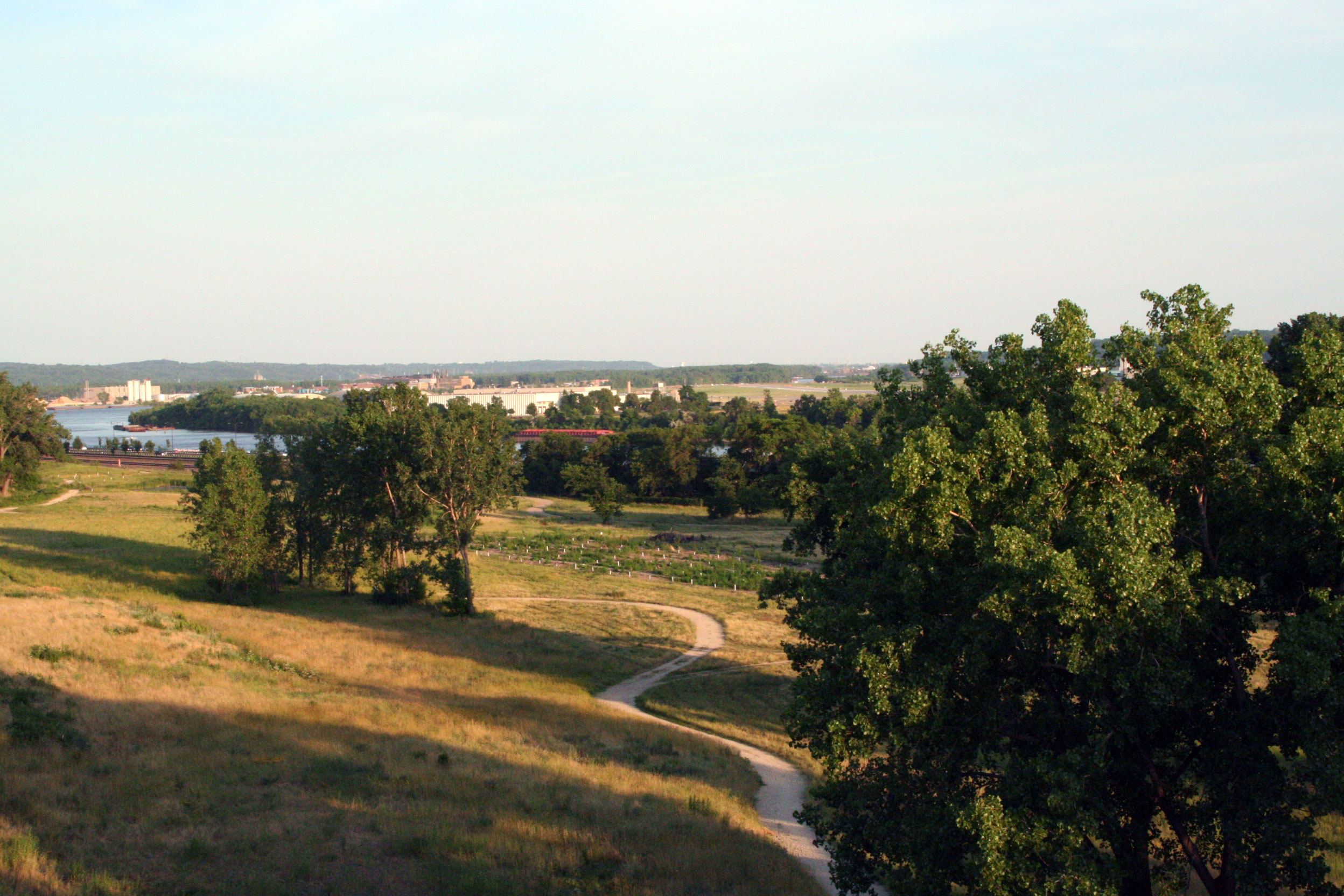 Photograph of the Bruce Vento Nature Sanctuary, Saint Paul, Minnesota